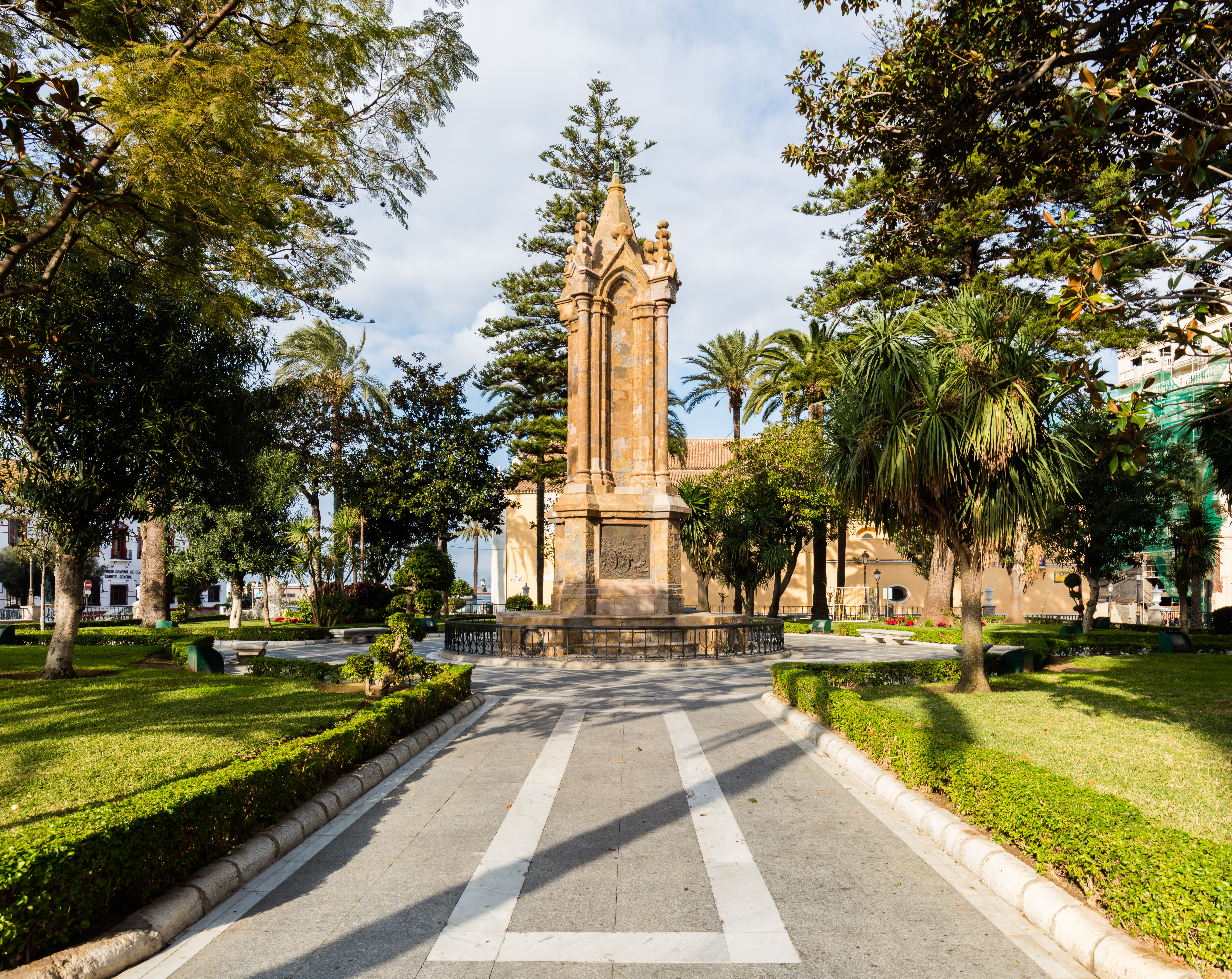 Plaza de África, Ceuta, Spain